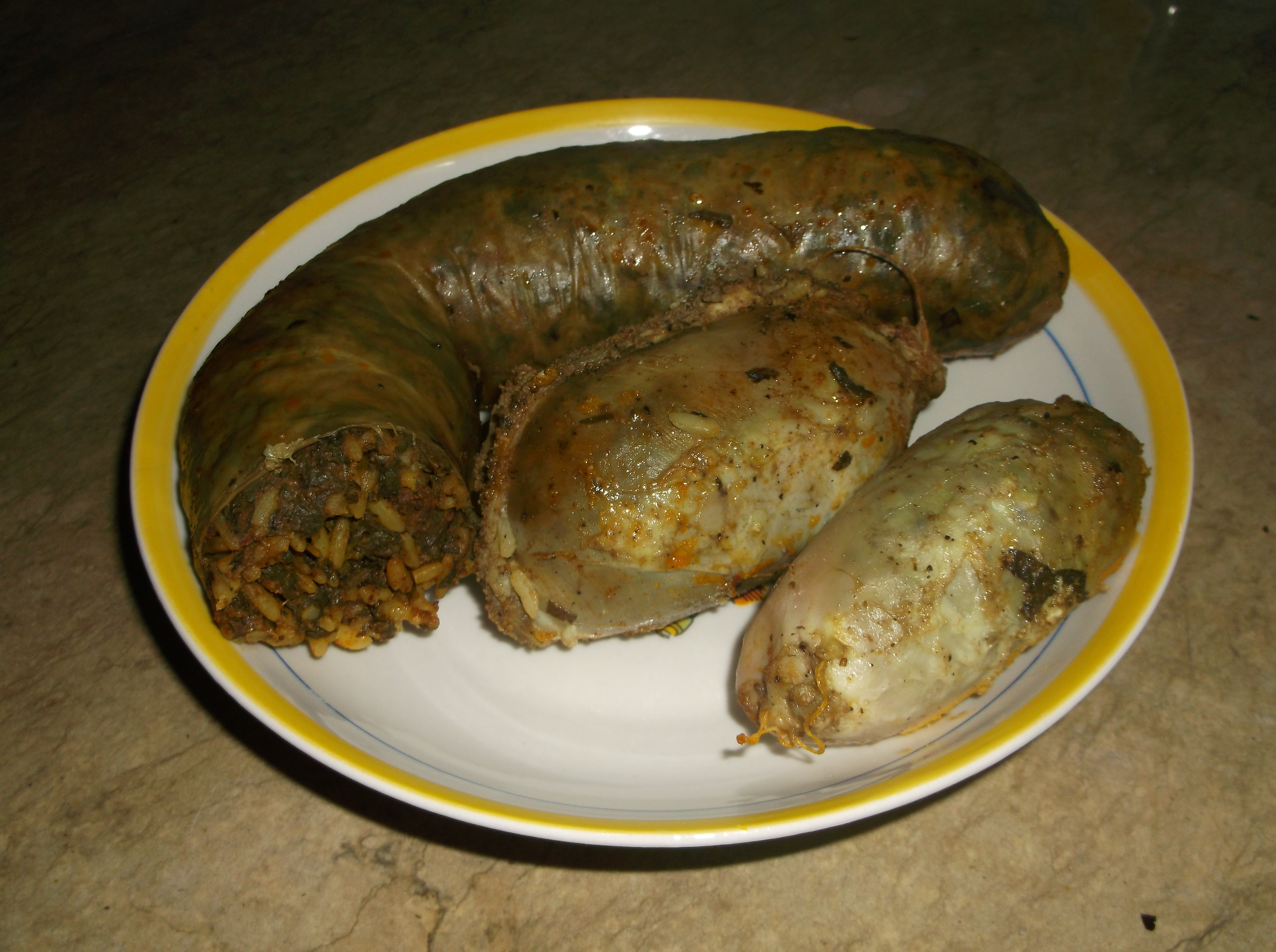 Tunisian Usban is a traditional kind of sausage in Tunisia and Libya , stuffed with a mixture of rice, herbs, lamb, chopped liver and heart This is an image of food from Tunisia